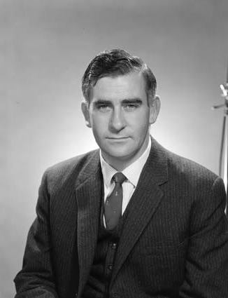 A 1961 black and white portrait of Billy Snedden, MHR for Bruce